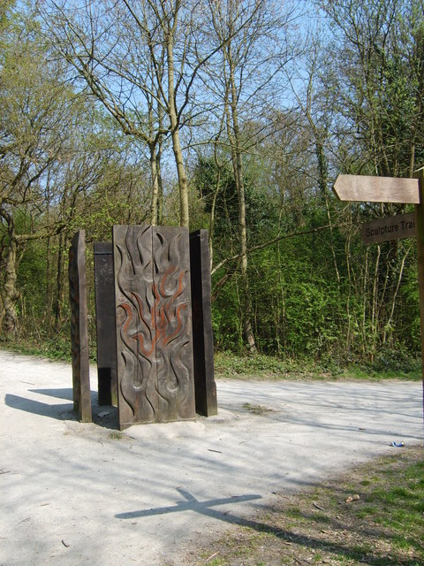 Saltwells Sculpture A part of the Saltwells Nature Reserve Sculpture Trail.